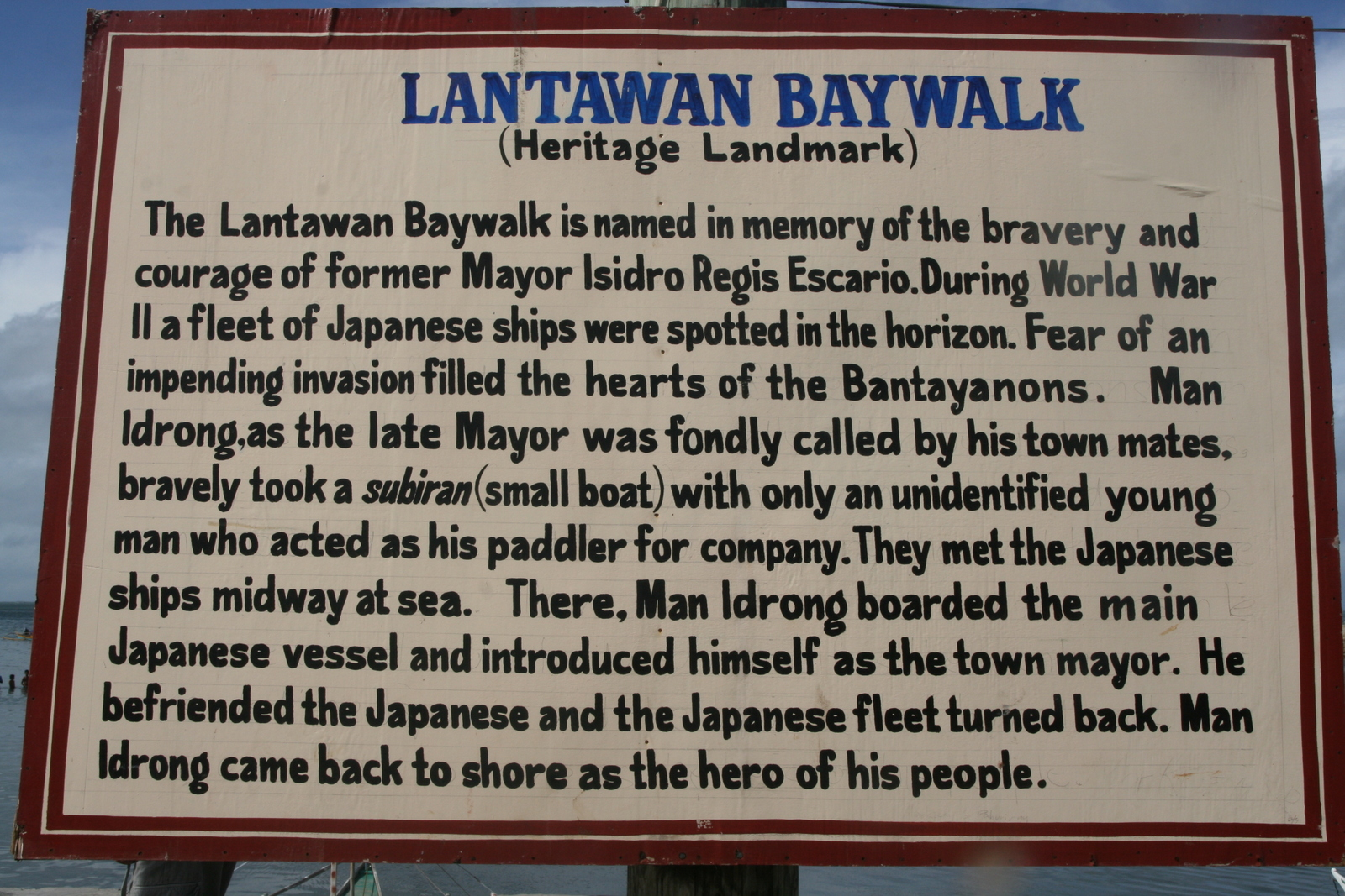 Memorial to Bantayan mayor Isidro Escario